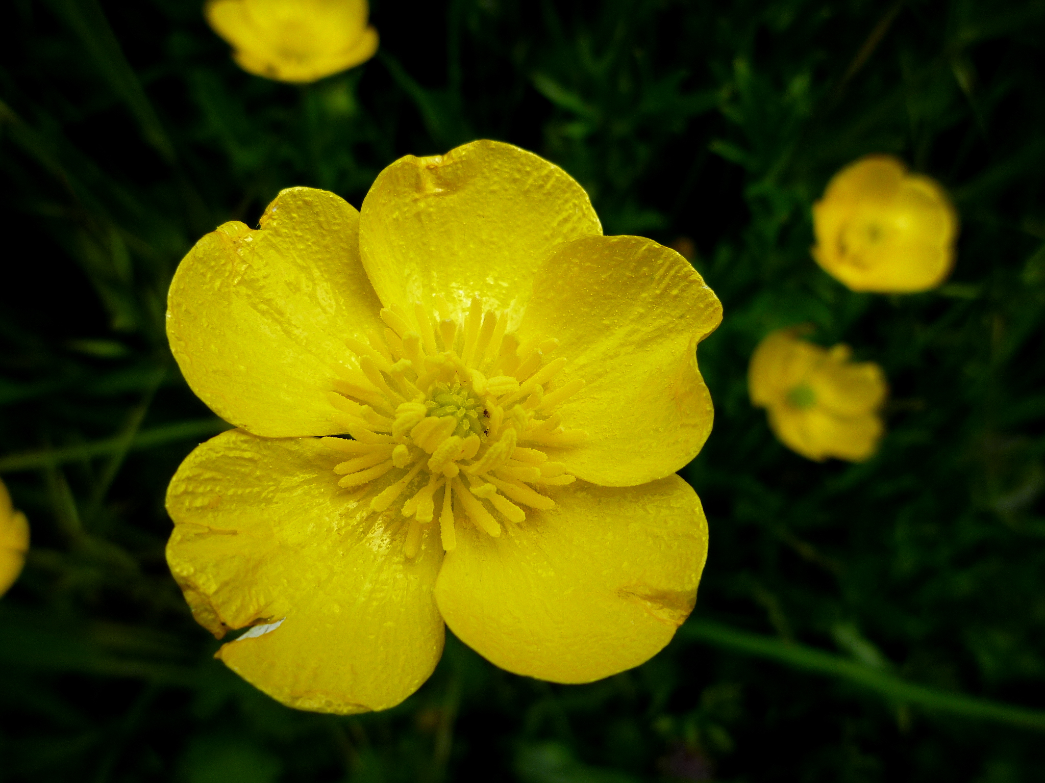 Caltha palustris. In Fígols (Berguedà-Catalunya). To 1.630 m. altitude